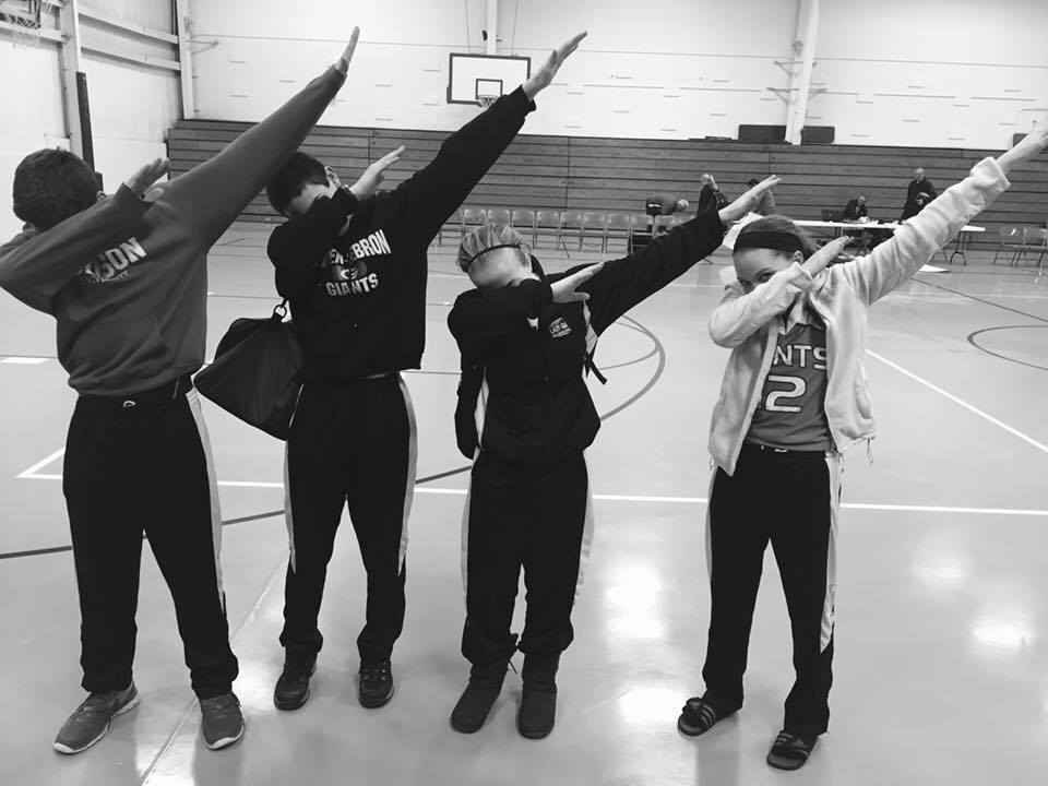 A group of teens dabbing.